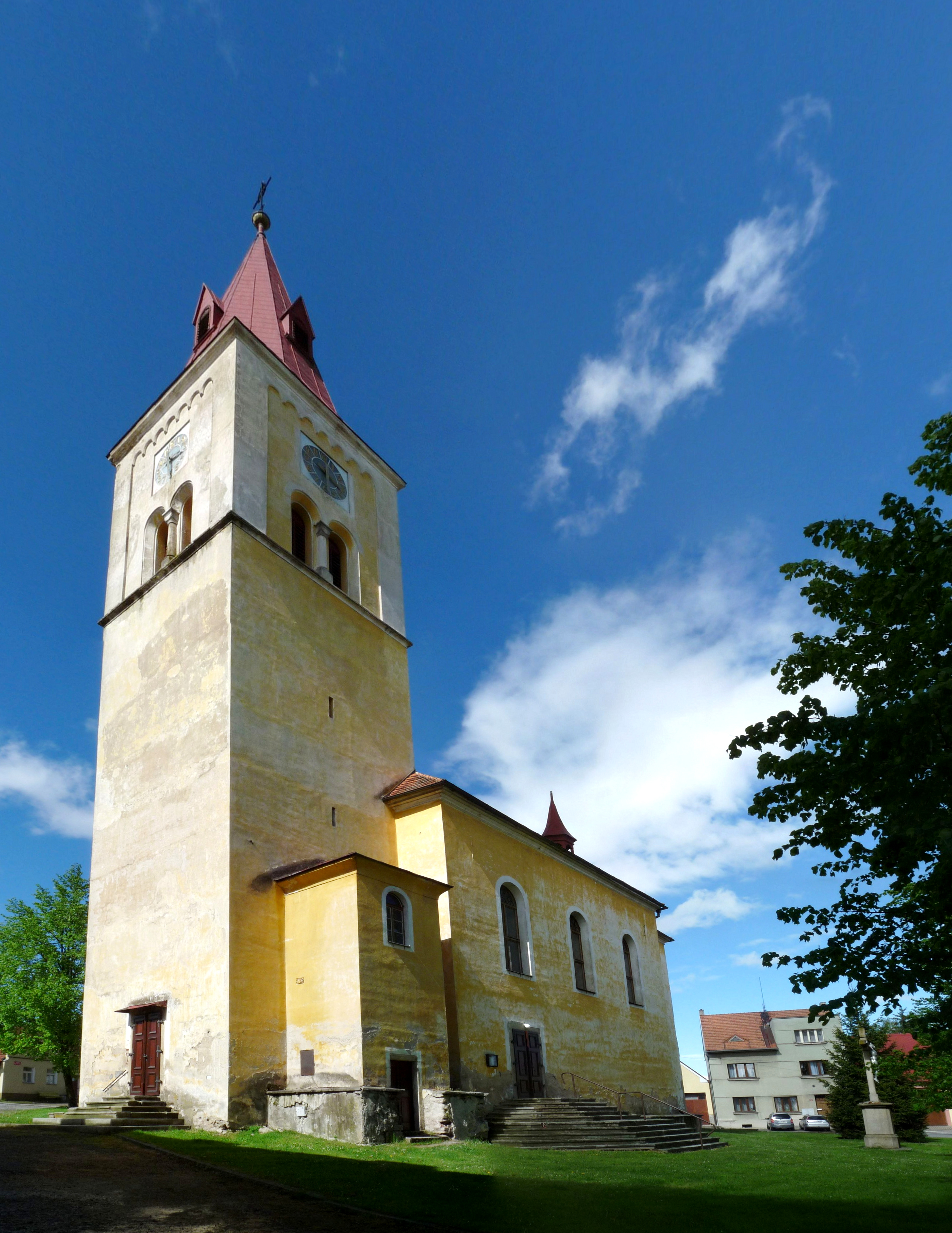 Holy Trinity Church in the municipality of Hořepník, Pelhřimov District, Vysočina Region, Czech Republic.